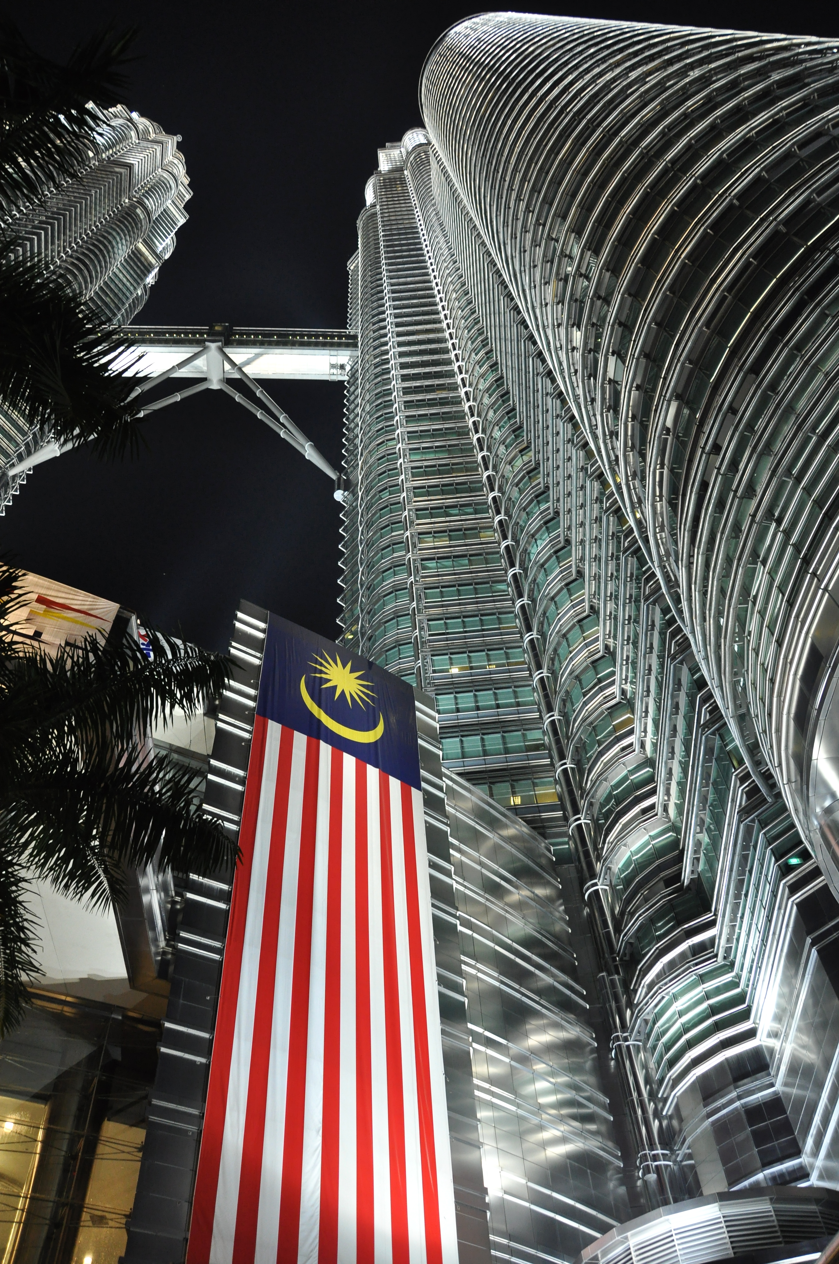 Petronas Towers, Kuala Lumpur, Malaysia. Photo taken at night from the base of one of the towers looking up towards the other tower. One of the large Malaysian flags on one of the towers is clearly visible and illuminated at the bottom centre of the shot.